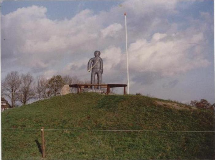 Wittesheuvel